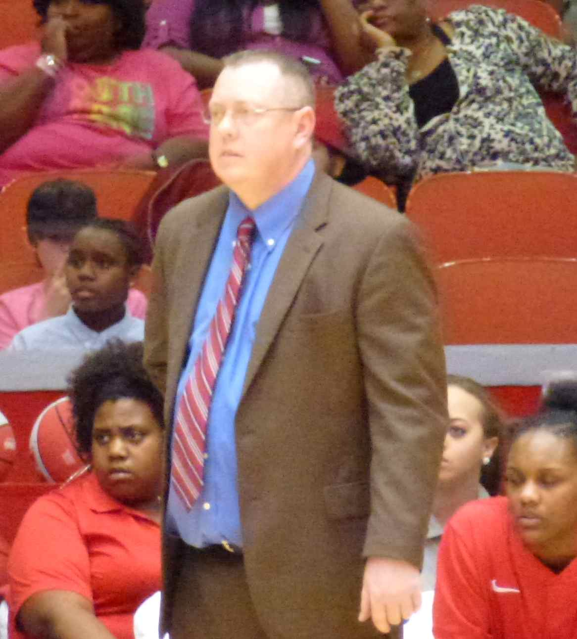 Wade Scott, interim head coach of University of Houston women's basketball team, taken at Houston-UConn game in Houston 22 Feb 2014